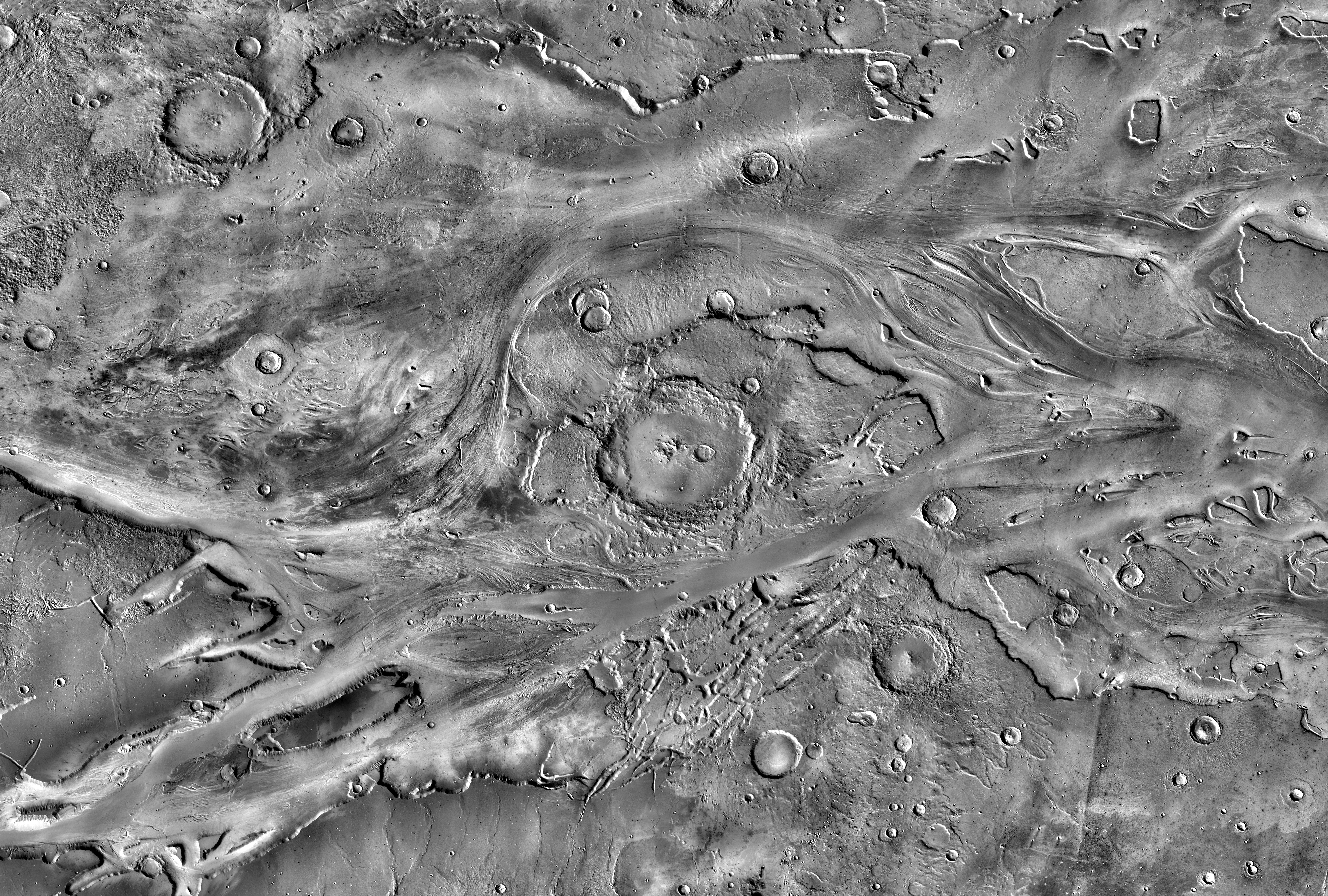 View of the 100 km diameter martian crater Sharonov and its surroundings. Situated in the Kasei Valles system of outflow channels, the crater divided the flow into two main branches that bracket it on the north and south. This scene is a section of a larger THEMIS daytime infrared image mosaic of Kasei Valles. Kasei Valles is situated north of the Valles Marineris canyon system. It drains eastward into Chryse Planitia. North is at the top. The original NASA image has been sharpened. Some of the features in this mosaic are annotated in Wikimedia Commons.